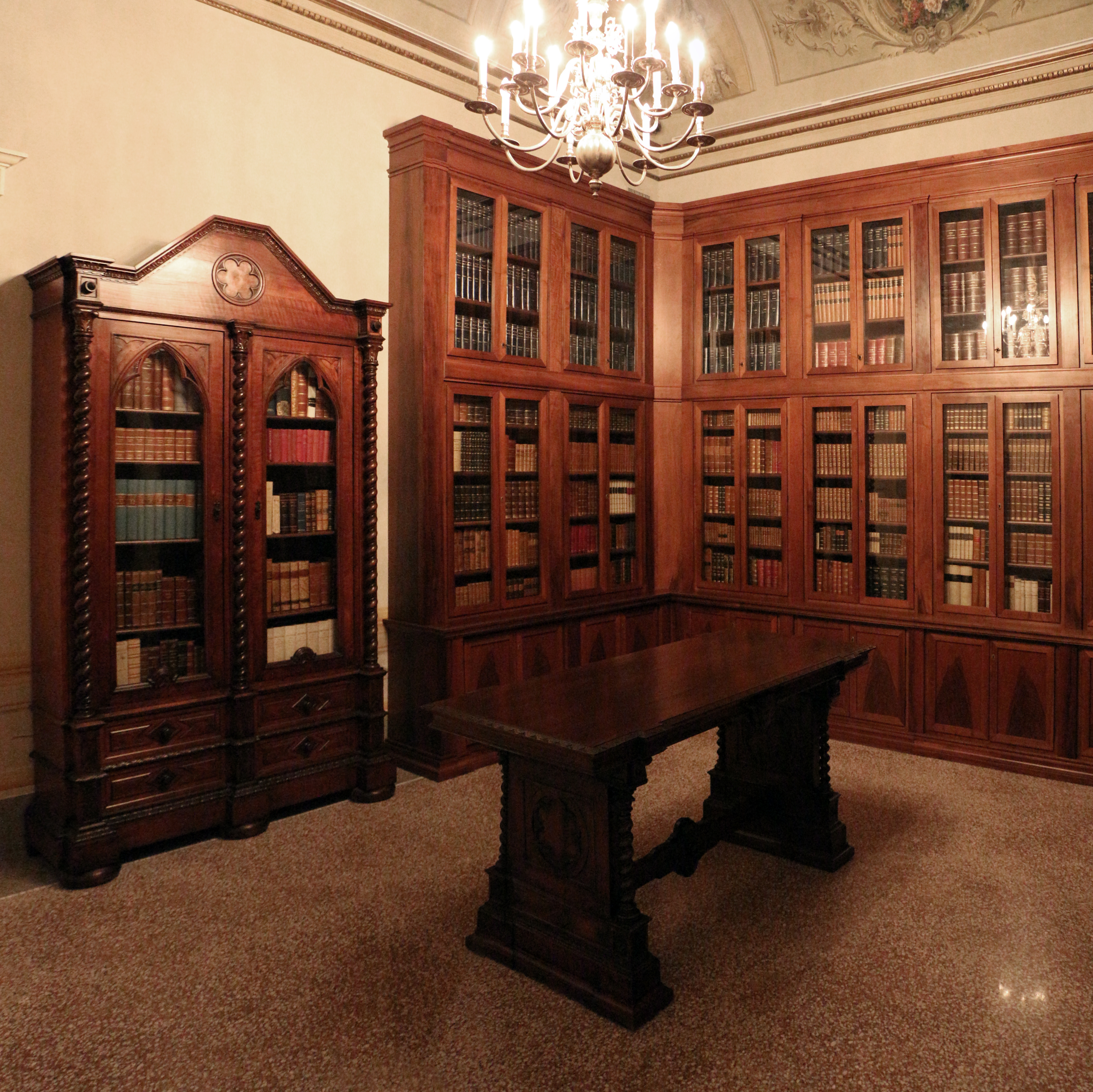 Palazzo Blu (Pisa)